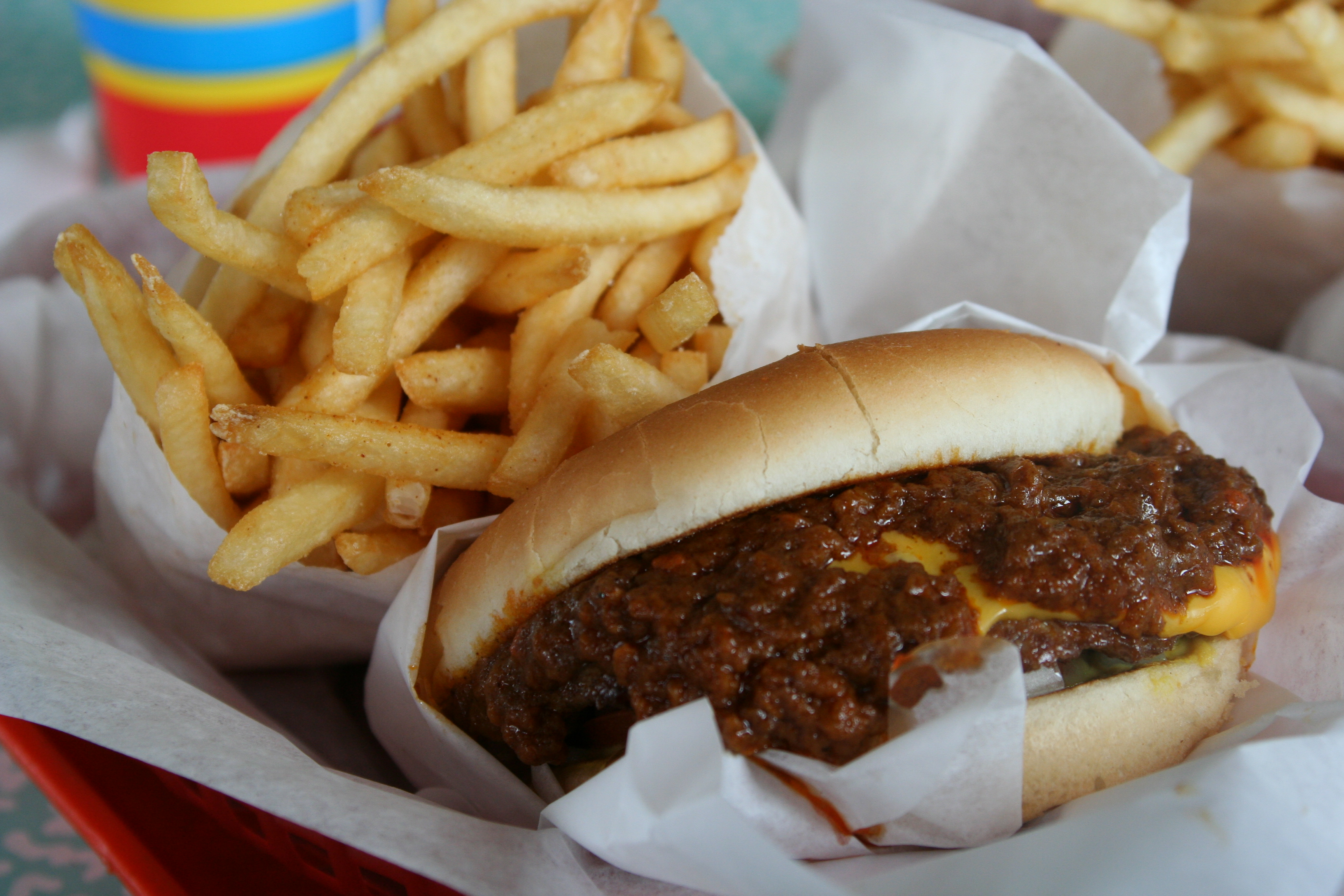 Tomboy's chili-cheeseburger with fries 2009.